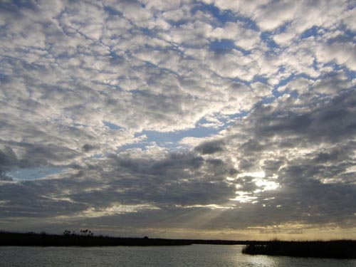 Photographer: Chris Haggerty